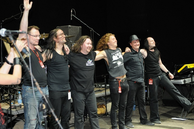 Throes of Dawn_krock